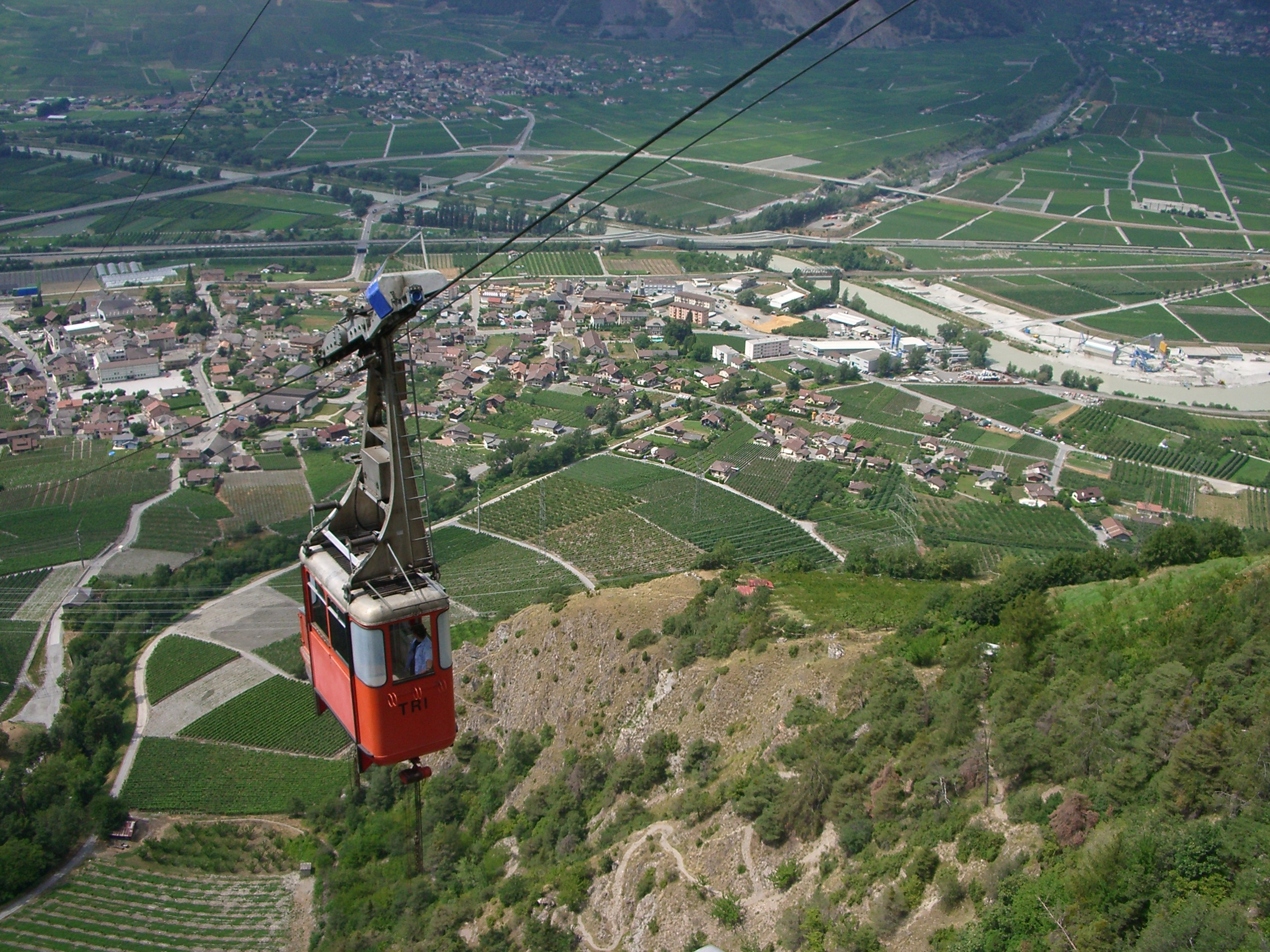 Very old fashioned cable car from Riddes to Isérables, Rhone valley, Wallis.